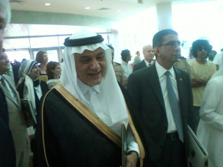 Prince Turki Al Faisal entering to speak at USF Marshall Student Center.